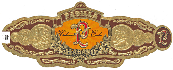 Scan of cigar band: Padilla Habano, 600 dpi